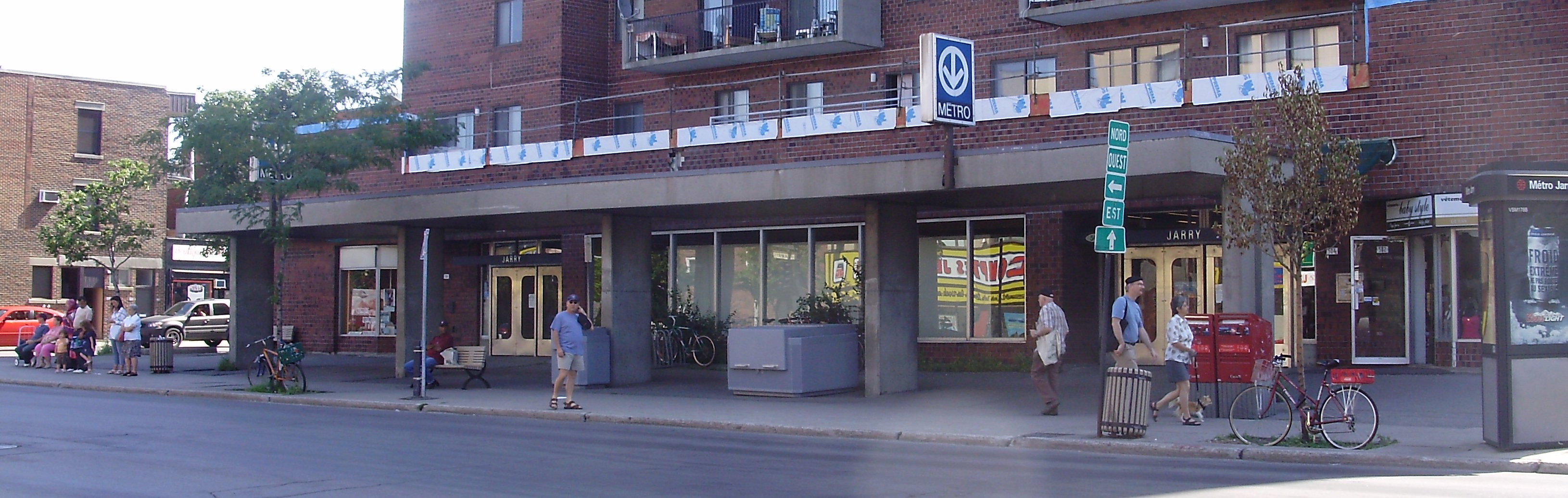 The Société de transport de Montréal's Jarry metro station in Montreal, Quebec, Canada.